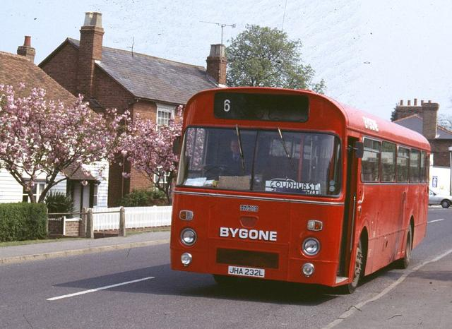 Bygone Buses bus (reg. JHA 232L), a Marshall bodied Leyland Leopard, pictured passing the West End pub in Marden with a lunchtime working of their Maidstone to Goudhurst service (the white board serves as the destination display, the number 6 is an internal running number, not a route number).